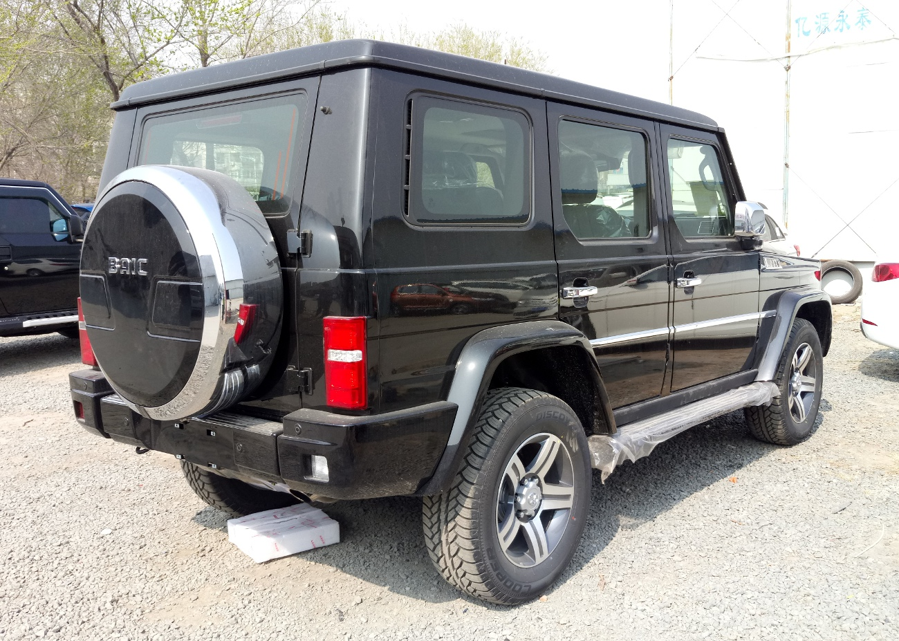 Beijing BJ80 photographed in Beijing, China.